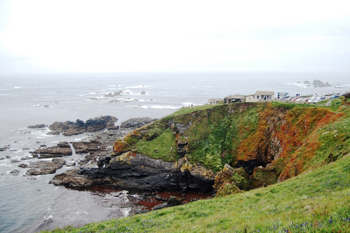 Lizard Point seen from the west (direction hostel and lighthouse)